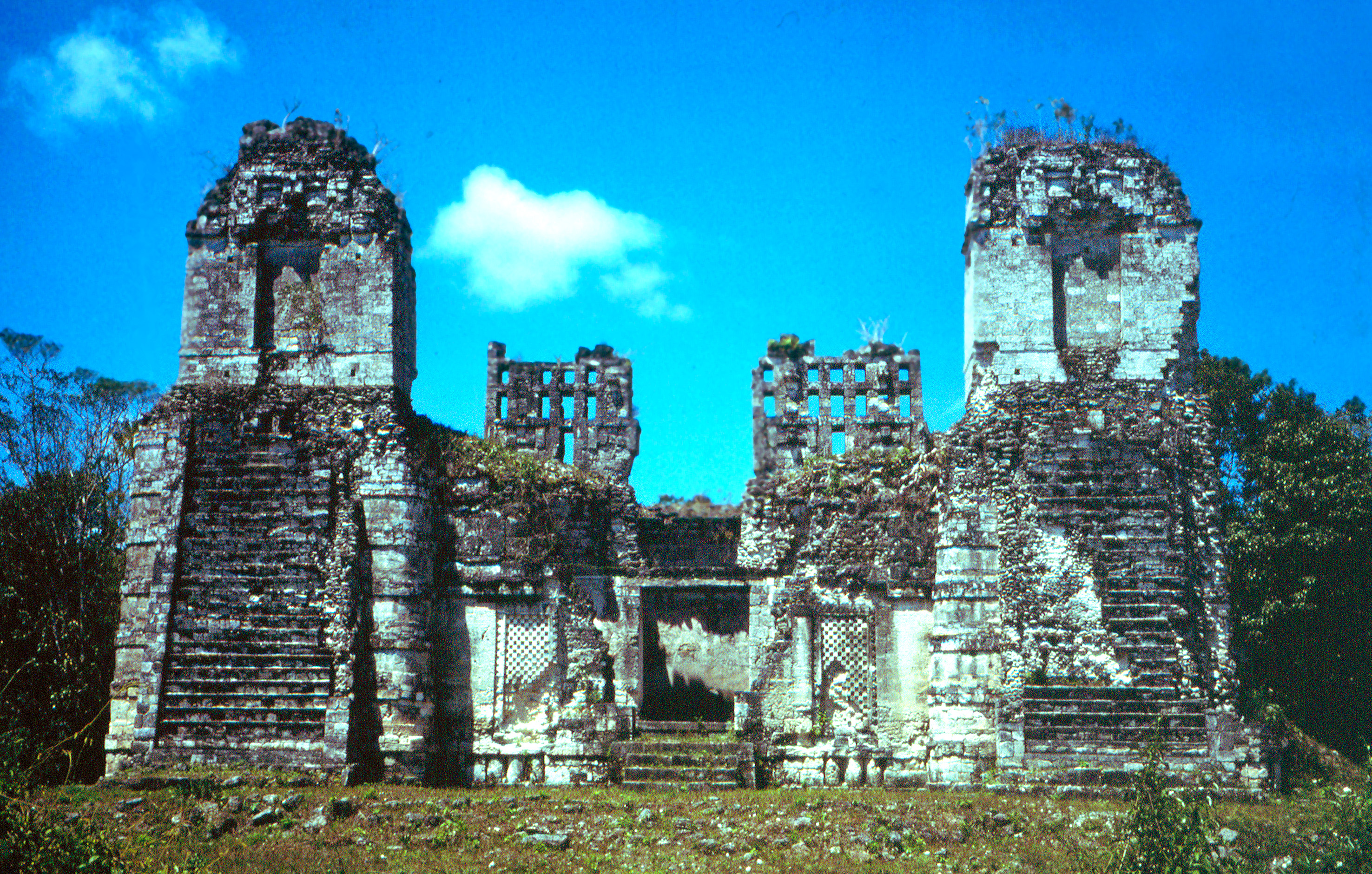 Rio Bec, Campeche, Mexico: Main building of Group B.